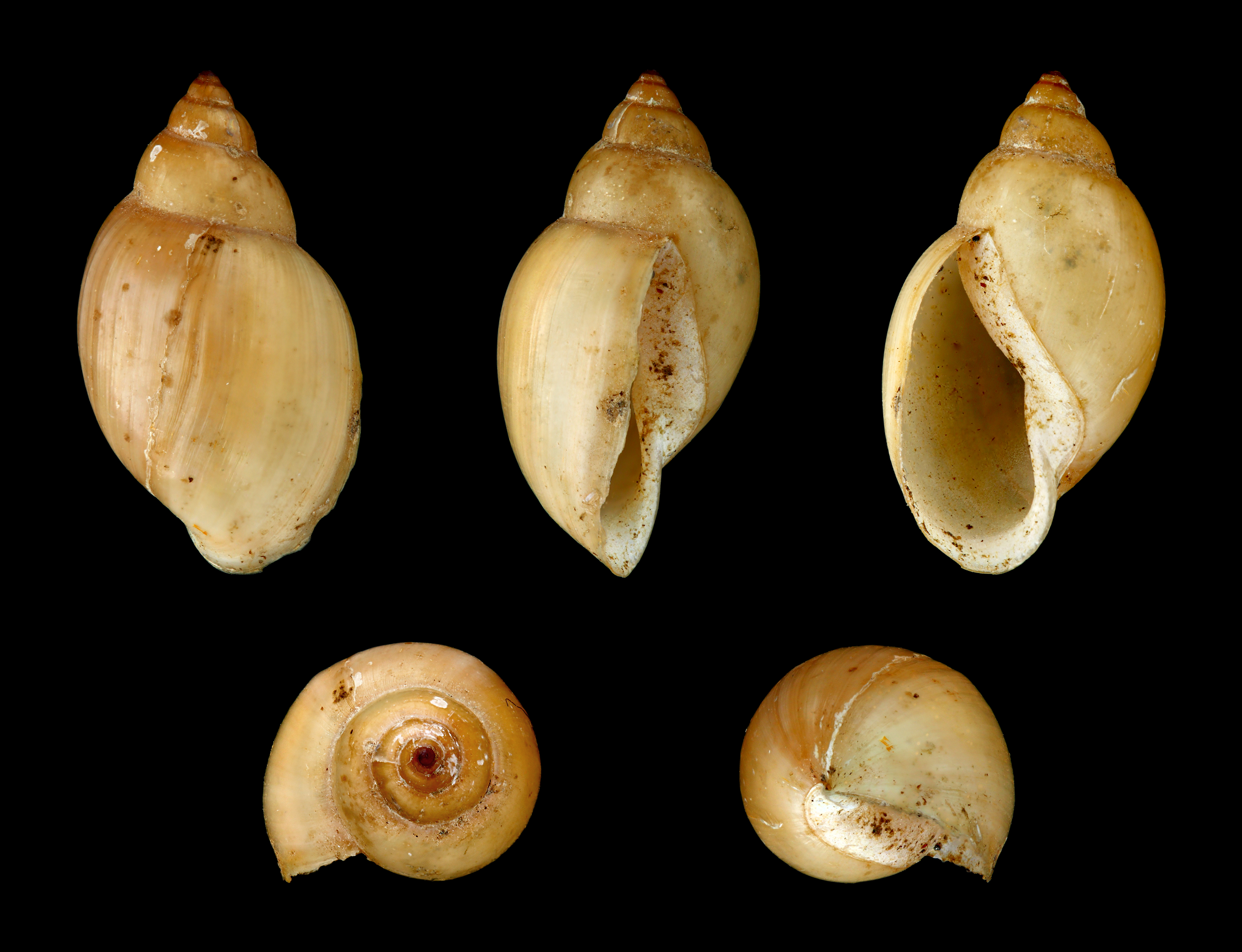 European Physa, Length 1.3 cm; Originating from Lake “Kleiner Bodensee” near Karlsruhe, Germany; Shell of own collection, therefore not geocoded. Dorsal, lateral (left side), ventral, back, and front view.